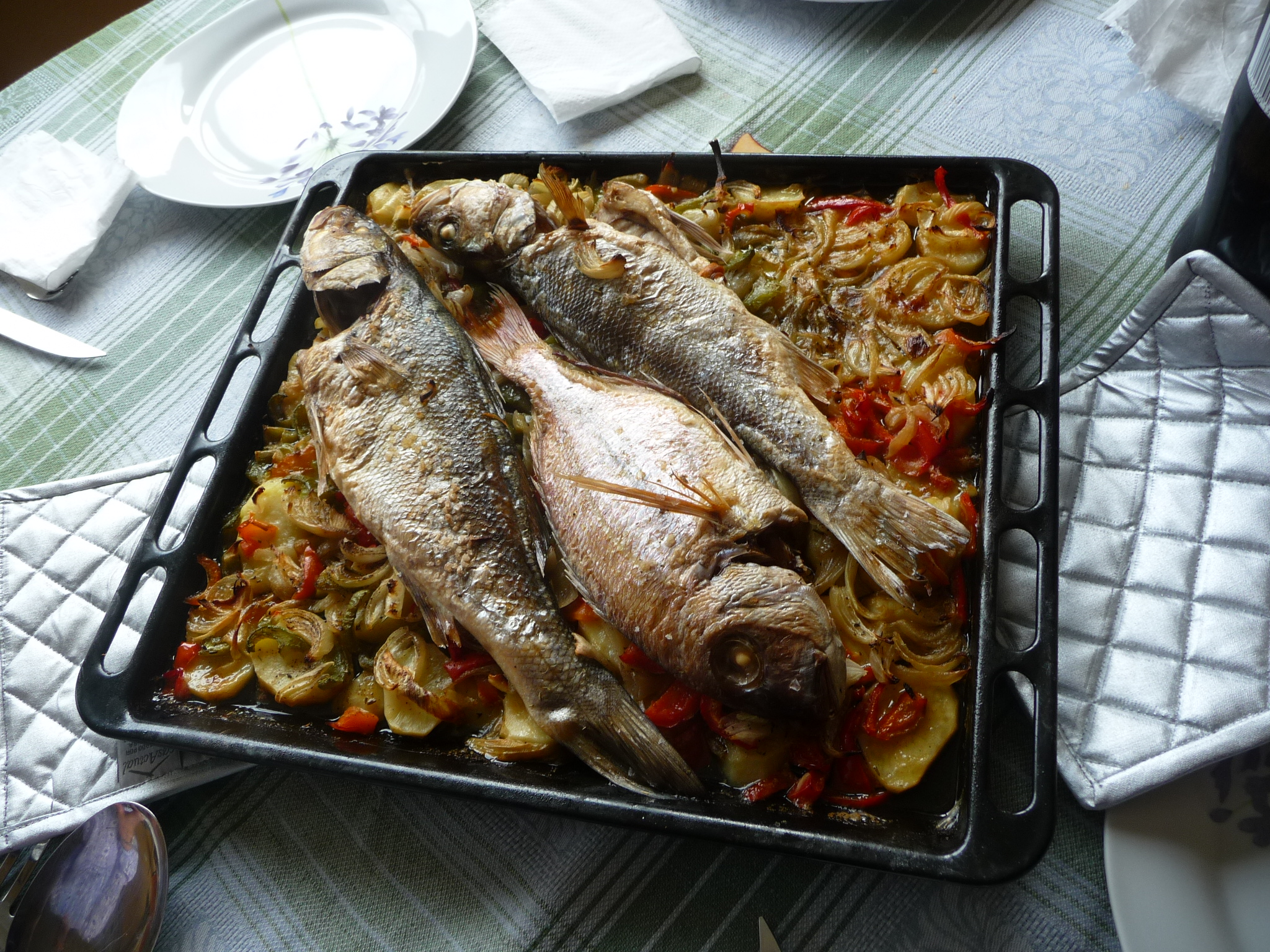 Two European seabasses and a red porgy cooked in the oven